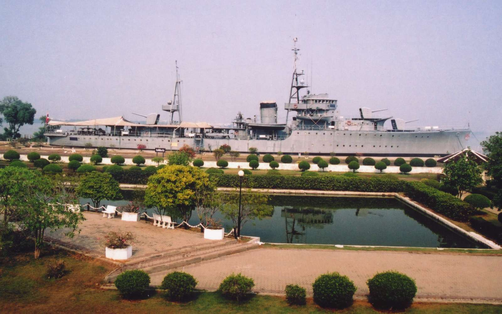 HTMS Maeklong, a former training ship of the Royal Thai Navy. Now fixed at the Chulachomklao Fort as a touristical attraction. Photo by User:Ahoerstemeier taken on January 17 2005.